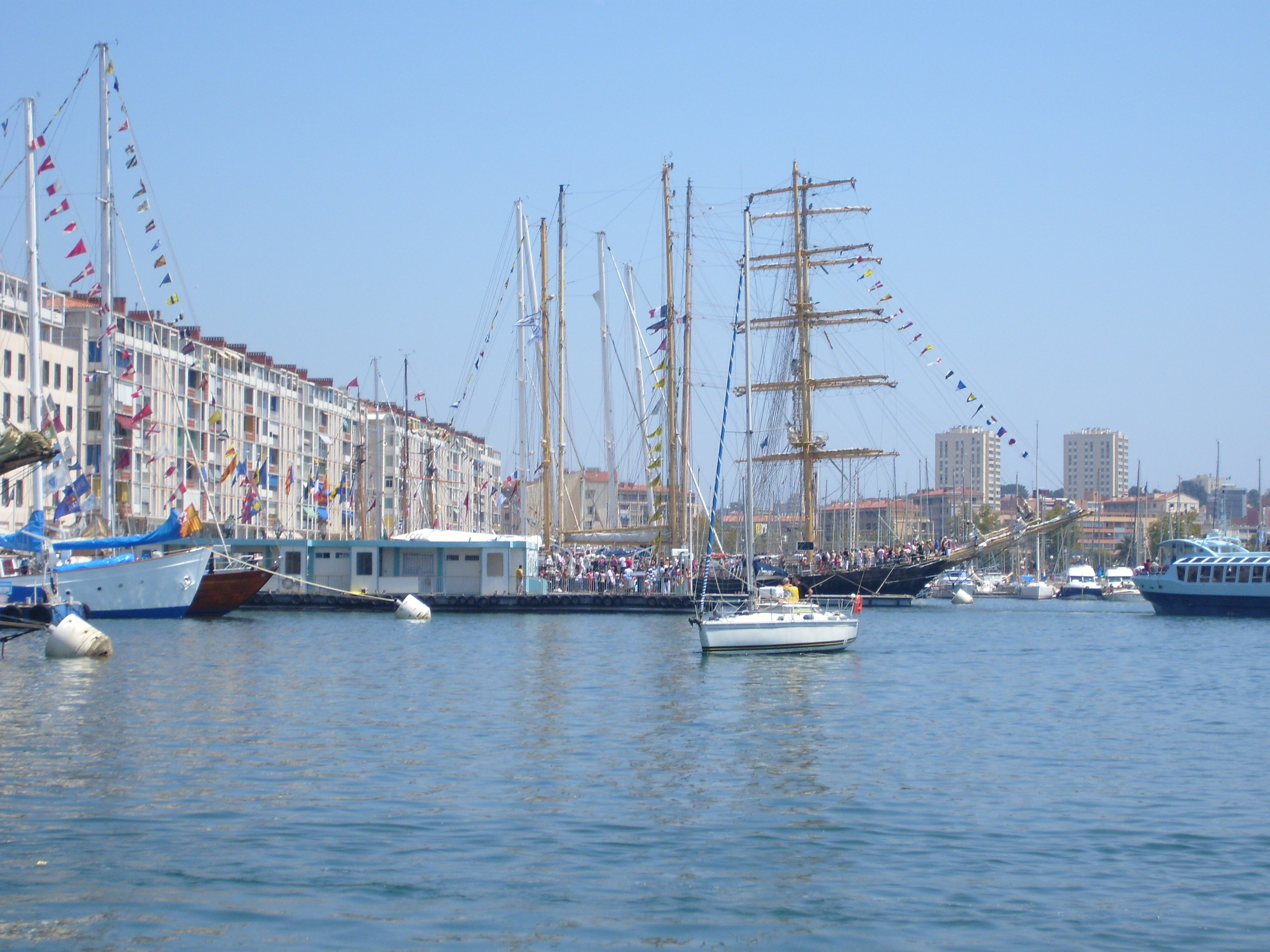 Tall ships in the old port of Toulon